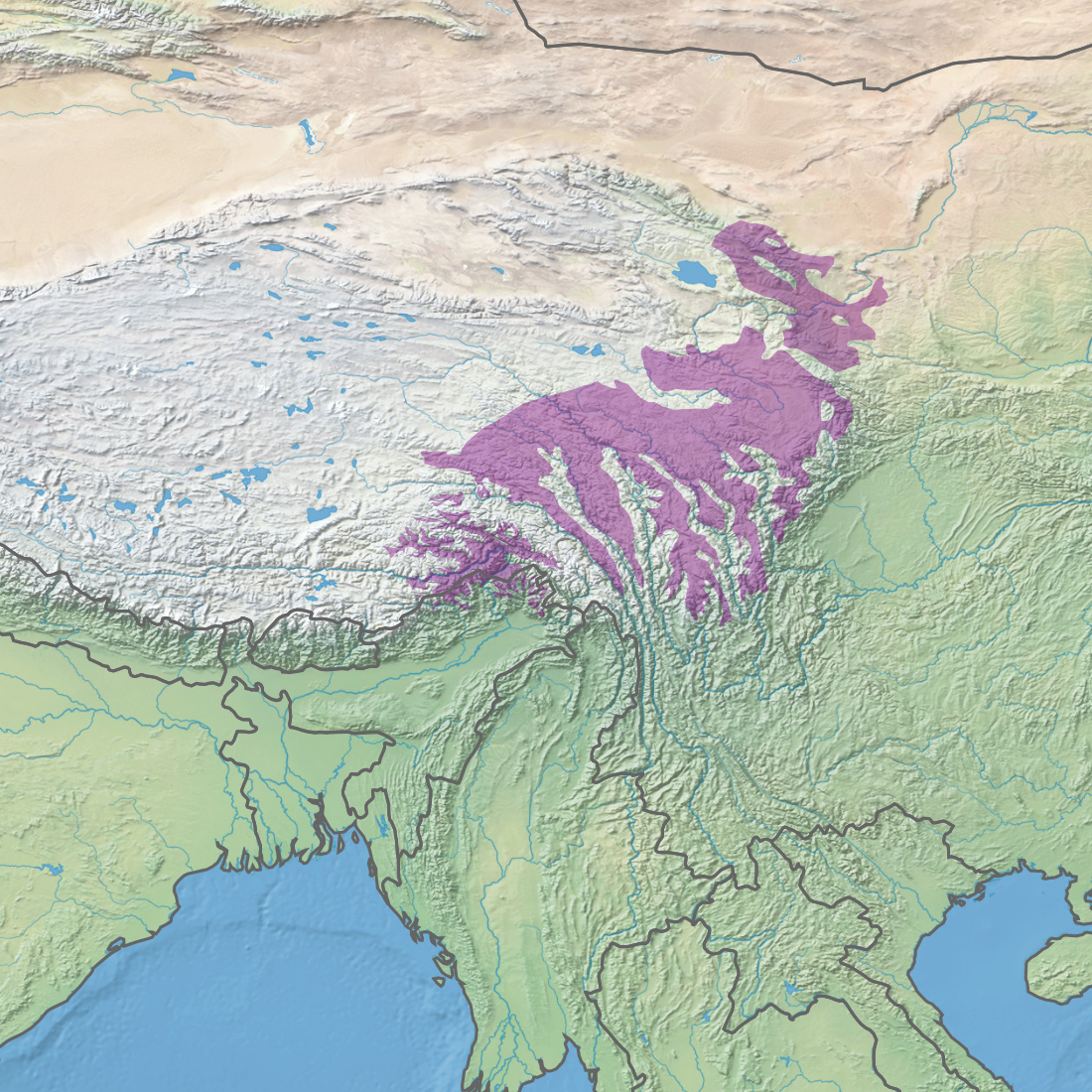 WWF Ecoregion PA1017 - Southeast Tibet shrub and meadows